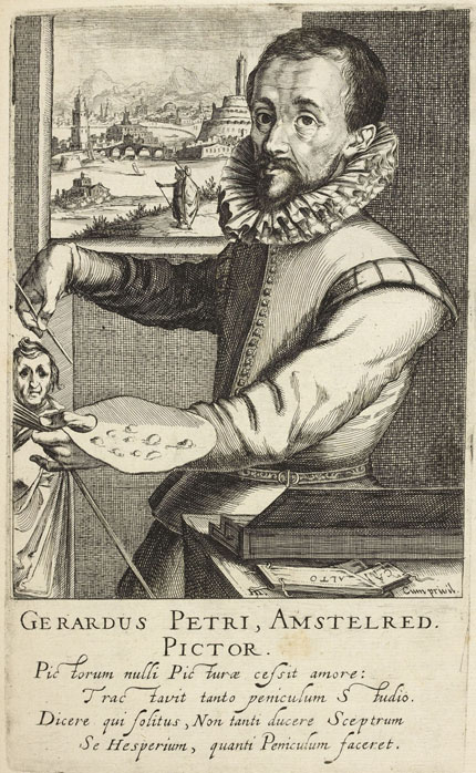 Engraved portrait of the Amsterdam painter Gerrit Pietersz Sweelink, page 65 from Pictorum aliquot celebrium Germaniae inferioris, published by Hendrick Hondius in 1610